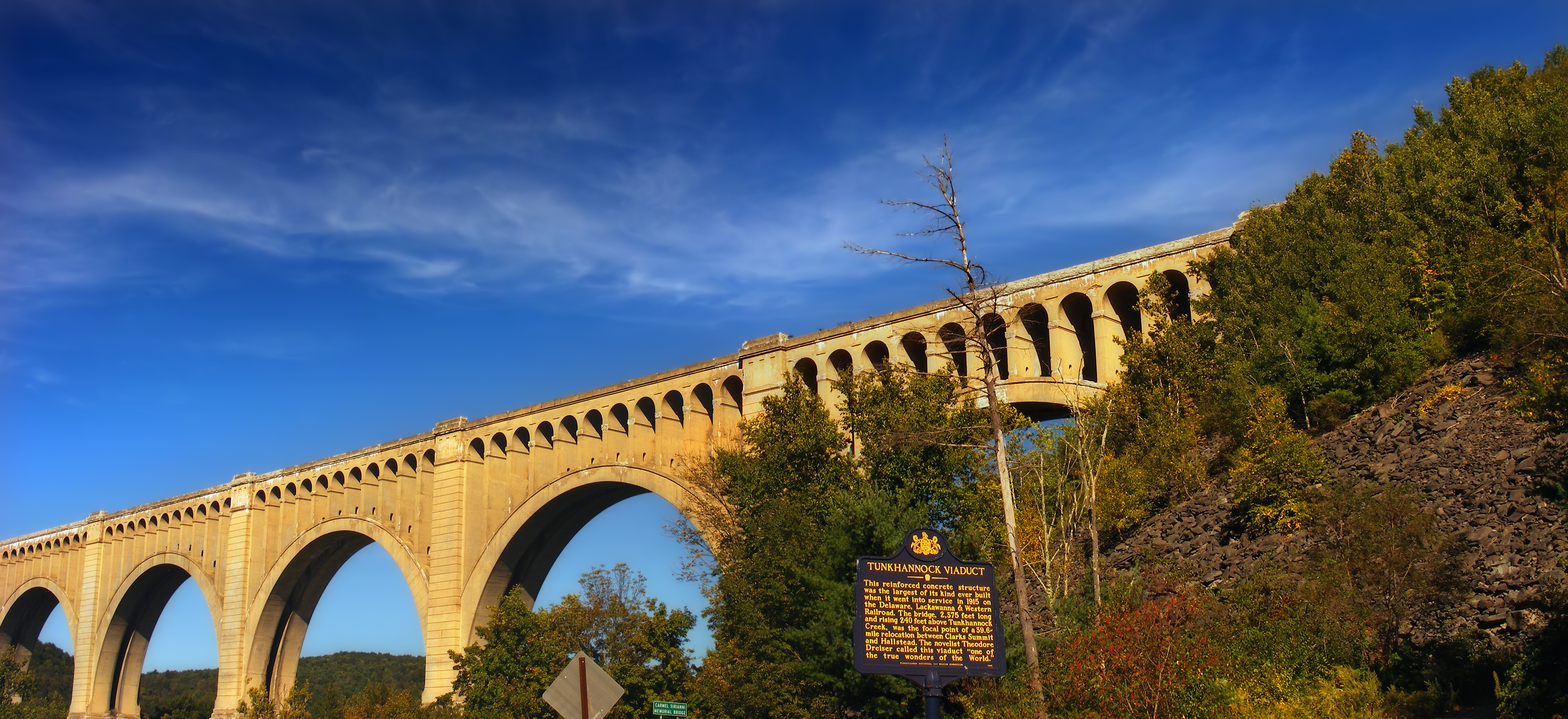 Tunkhannock Viaduct, Wyoming County, as seen from a turnout on US Route 11.